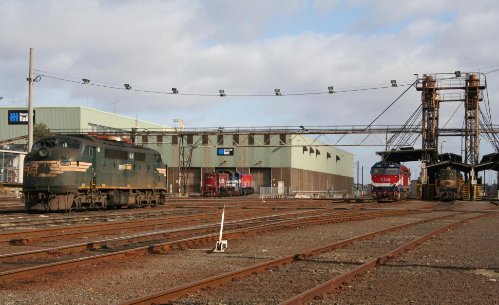 Variety of Pacific National and V/Line broad gauge diesel locomotives stabled outside South Dynon Locomotive Depot, Melbourne, Victoria, Australia. From left to right: A81, Y163, unknown P class, N455 and H3. Maintenance sheds are to the left, fuel point and sanding towers are to the right